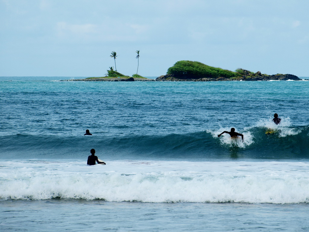 Surfers Surfing at Busua Beach in Western region, Ghana.